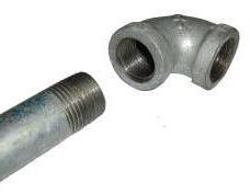 Ordinary pipe and elbow fitting, demonstrating male and female threads. (Originally from W:Image:Malefemalepipe.jpg, 2006-02-12) —Scs 04:50, 16 August 2007 (UTC)